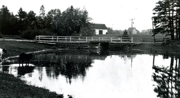 A bridge on Hendry Brook in Belledune, New Brunswick, circa 1920.